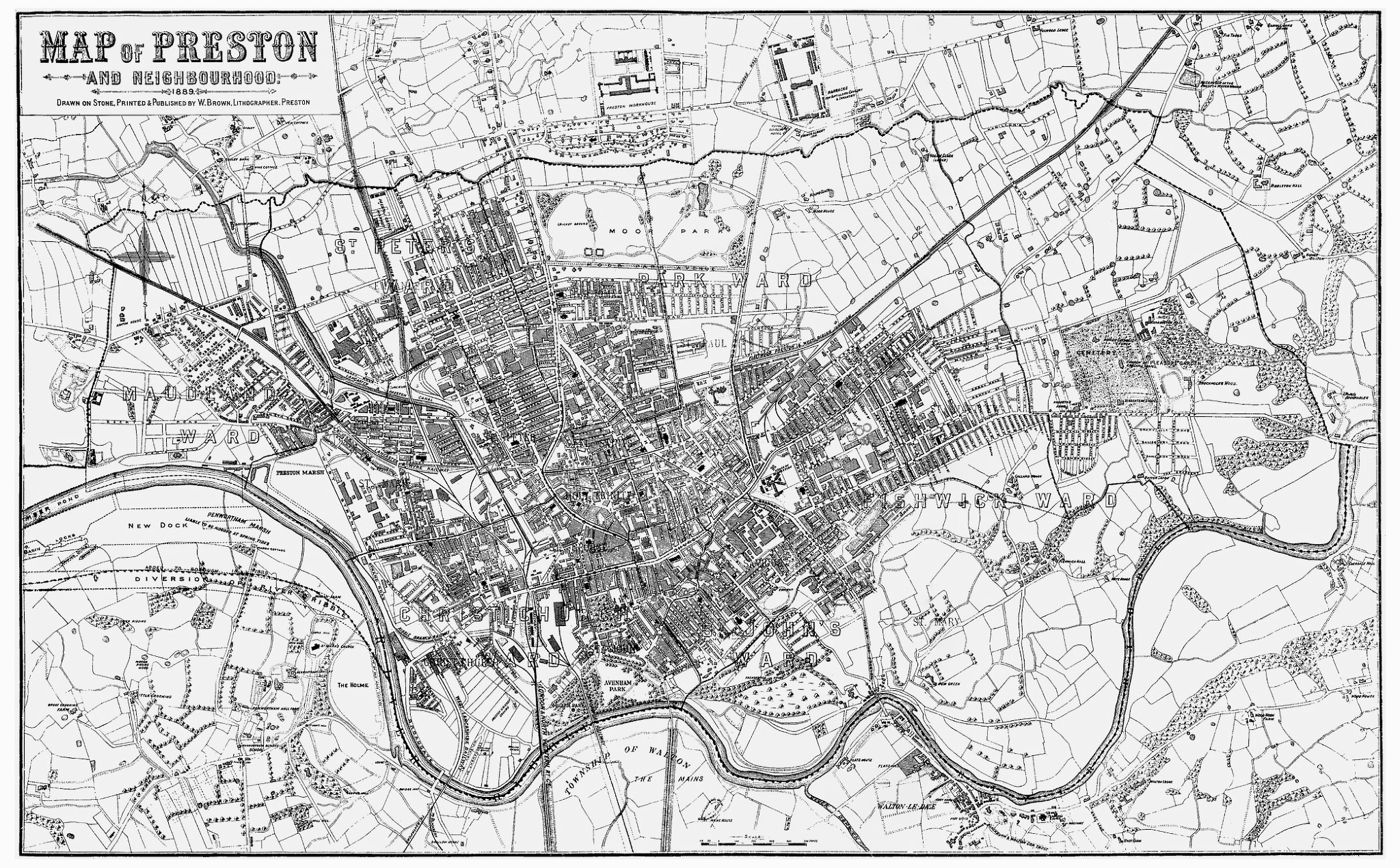 Map of Preston from 1889, showing the original course of the River Ribble along with the planned diversion to the south through Penwortham Marsh for the construction of the Albert Edward Dock.